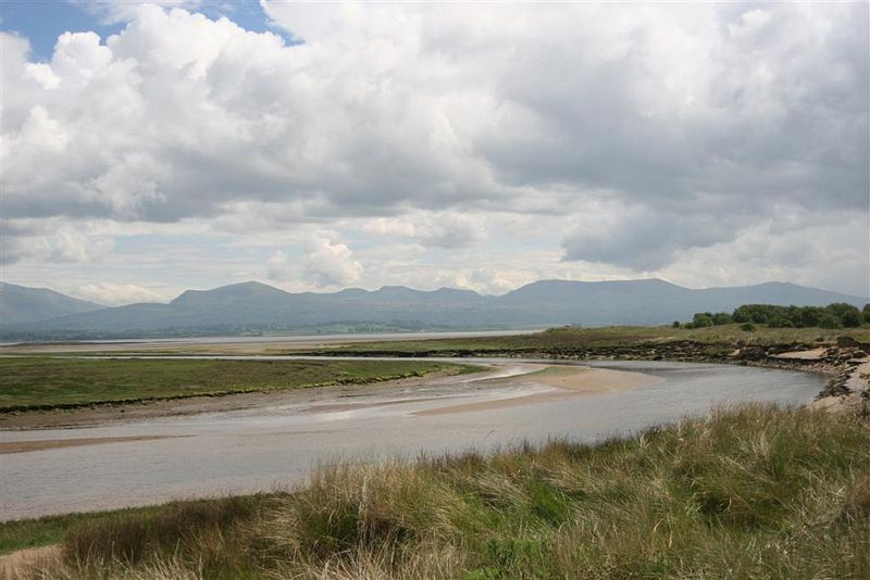 Afon Braint estuary, Anglesey